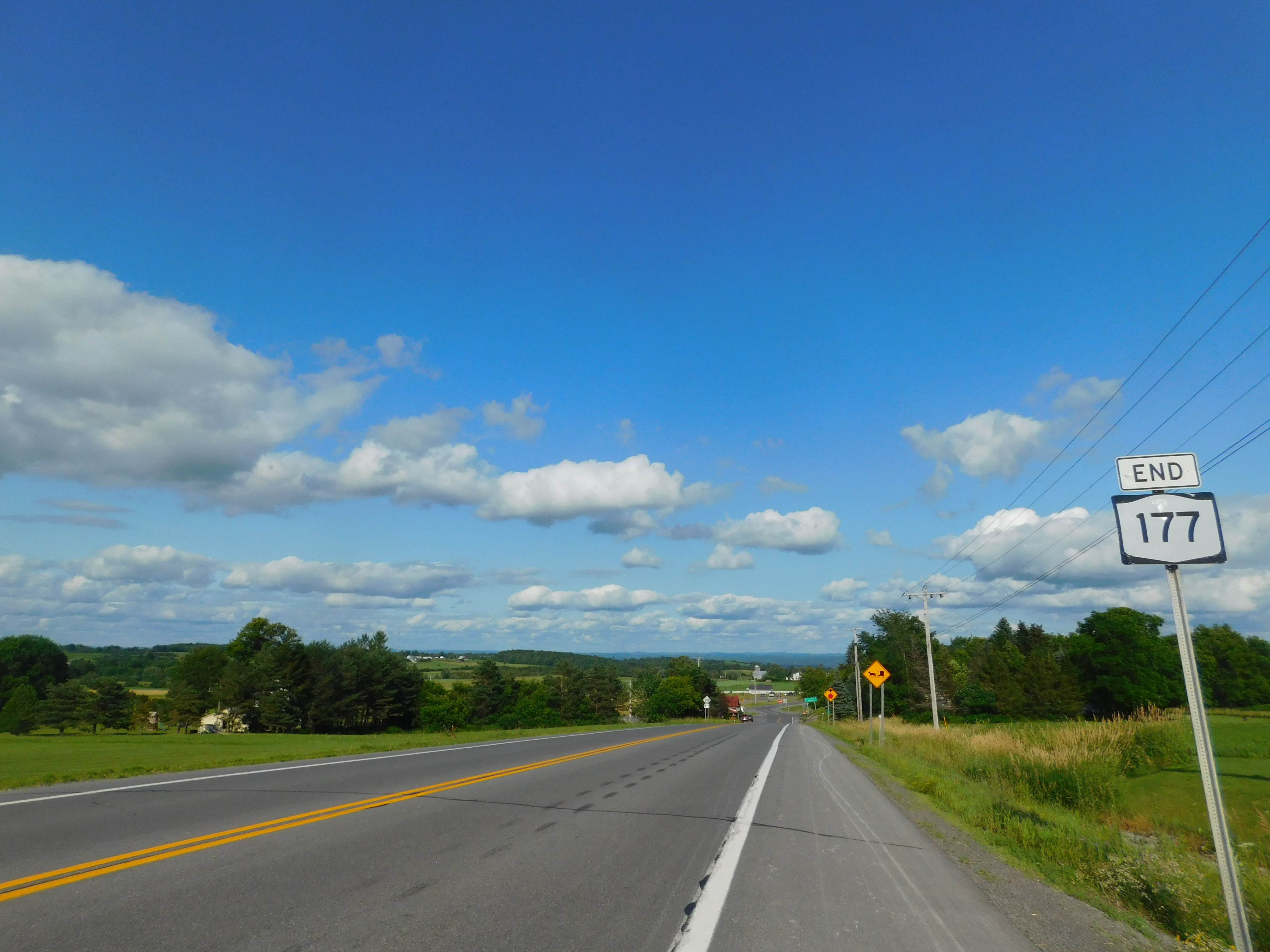 New York State Route 177 east approaching its terminus at New York State Route 12 in West Lowville, New York.